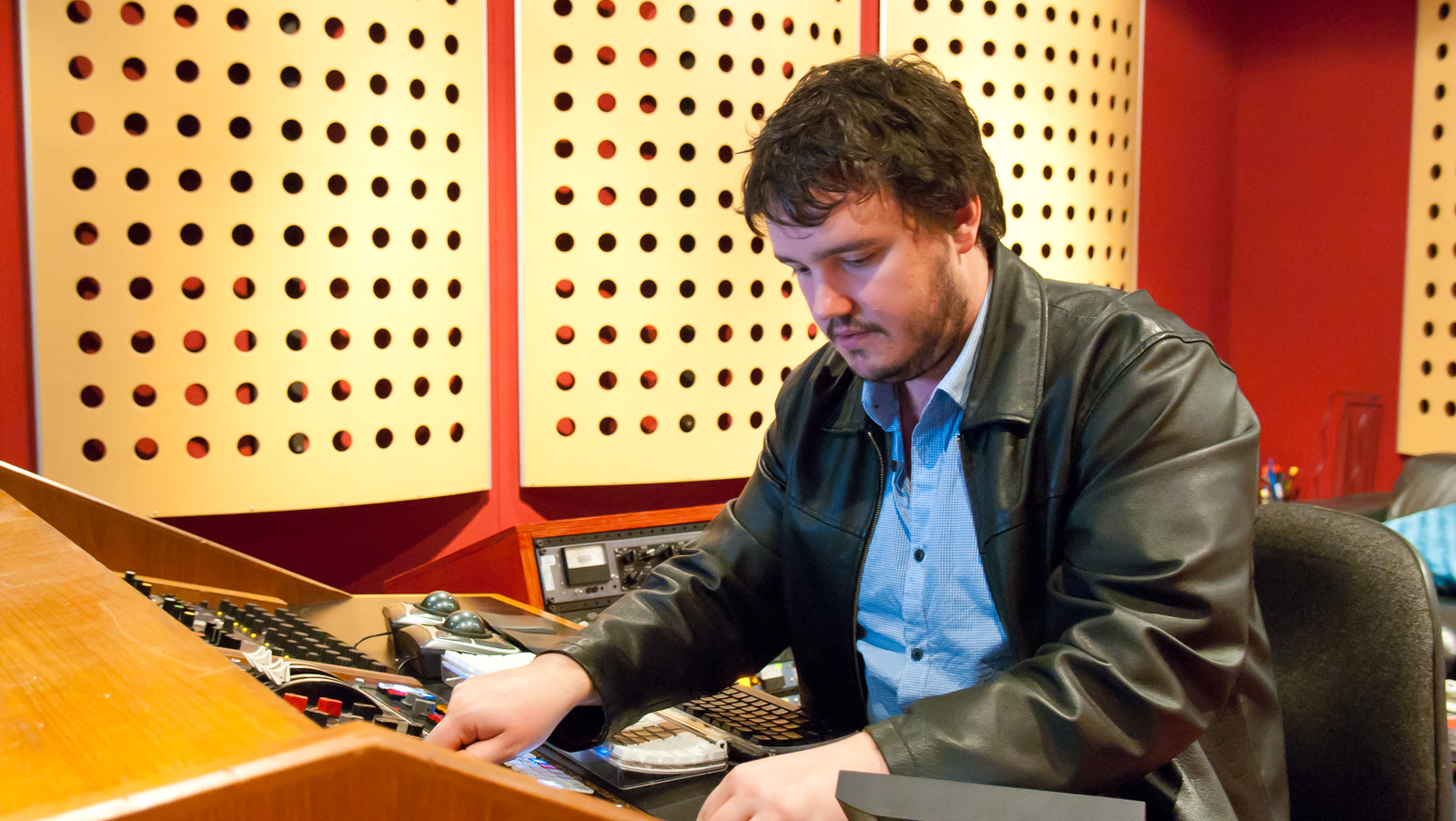 Studios 301 mastering engineer Andrew Edgson